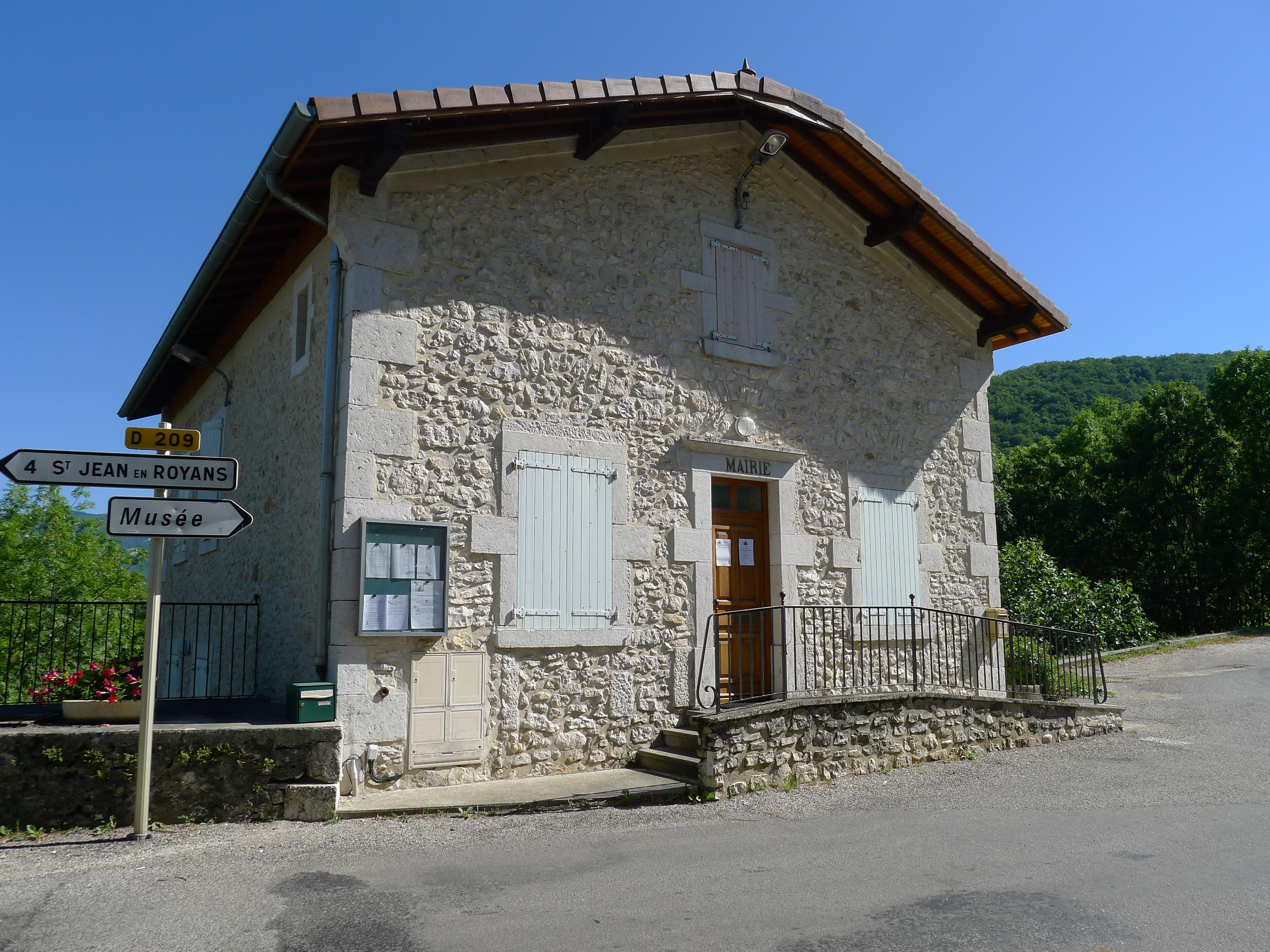 Town hall of Rochechinard - Drôme - France